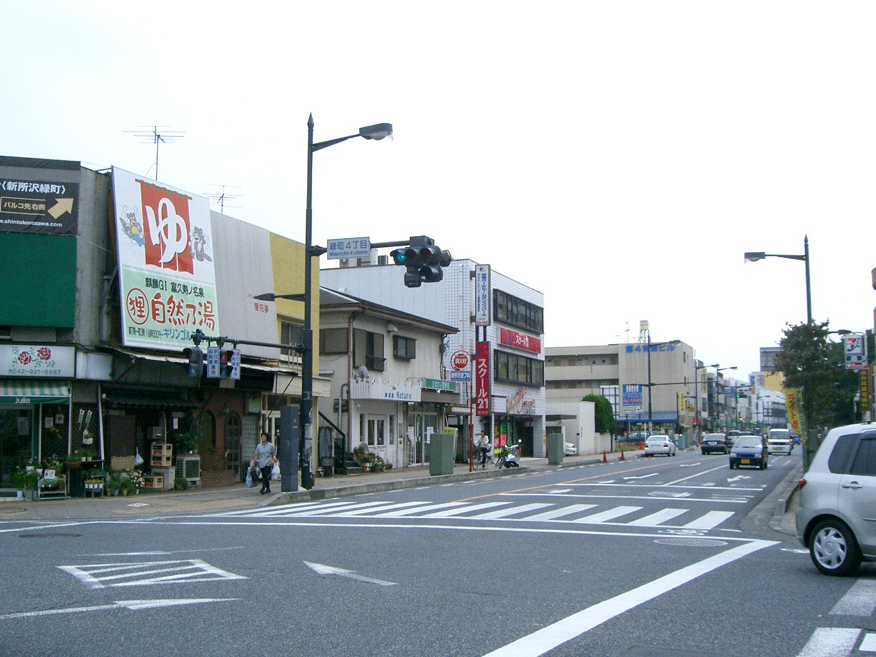 The Midoricho 4-chome Intersection on the Saitama Prefectural Road Route 6, view towards the south